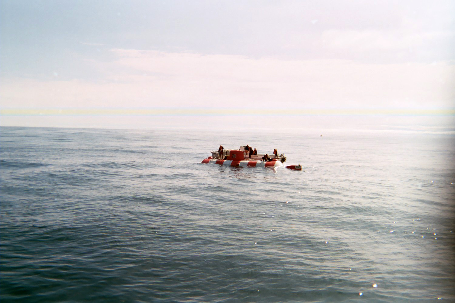 Bering Sea (Aug. 7, 2005) – Russian Sailors evacuate their mini-submarine AS-28 Priz after surfacing in the Bering Sea. The Sailors were trapped for three days in waters over 600 feet deep with dwindling oxygen supplies. The UK Navy transported two "Super Scorpio" remotely operated vehicles in an effort to assist the rescue of seven Russian Sailors trapped on the ocean floor in a mini-submarine off the Kamchatka Peninsula. U.S. Navy photo by Master Chief Electronics’ Technician Charles T. Grandin (One comment: this accident took place not in Bering sea but in Pacific coast of Kamchatka south from Petropavlovsk. This photo have little wrong description on this .mil site Rdfr 13:17, 6 April 2008 (UTC))